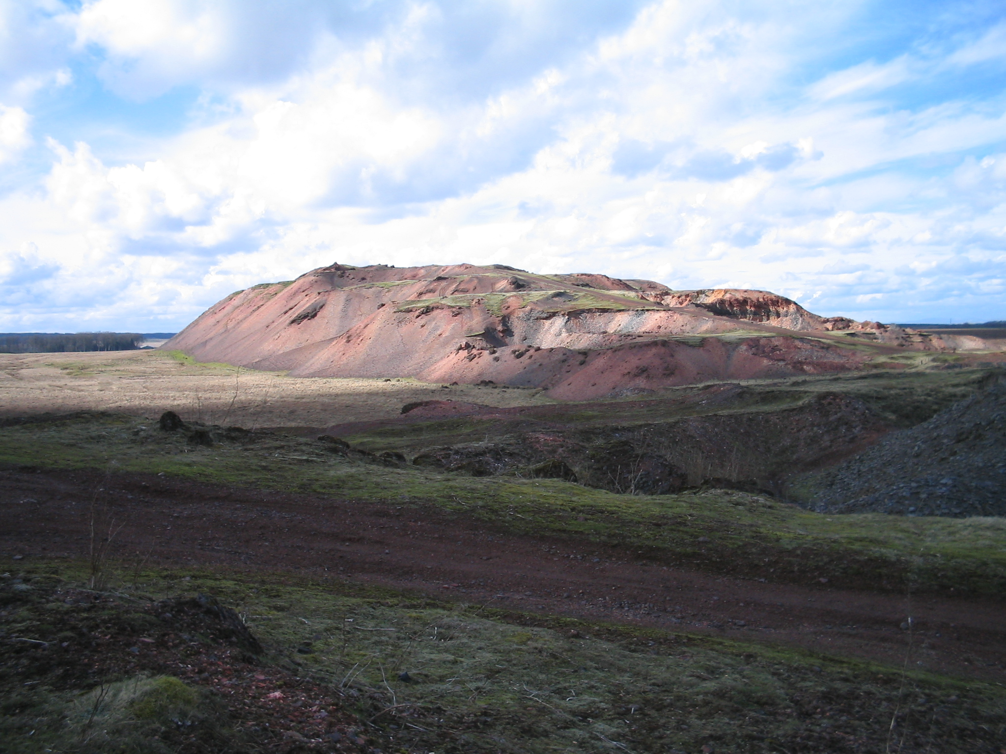 Tarbrax Bing, photograph by Gideon Riddell.